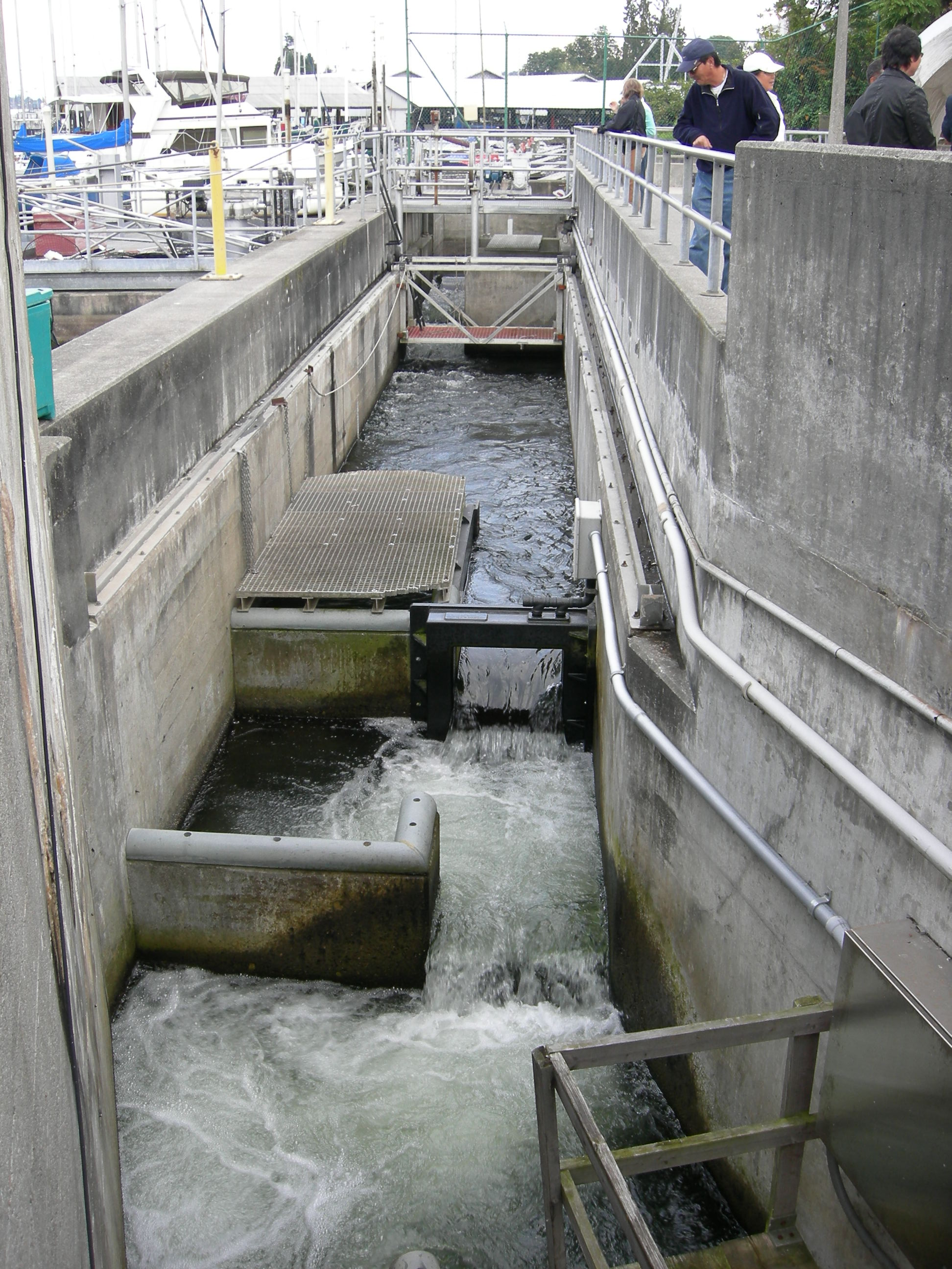 Part of the fish ladder, Hiram M. Chittenden Locks, Seattle, Washington, USA. This is the same part of the fish ladder that visitors can see from below in the viewing room.